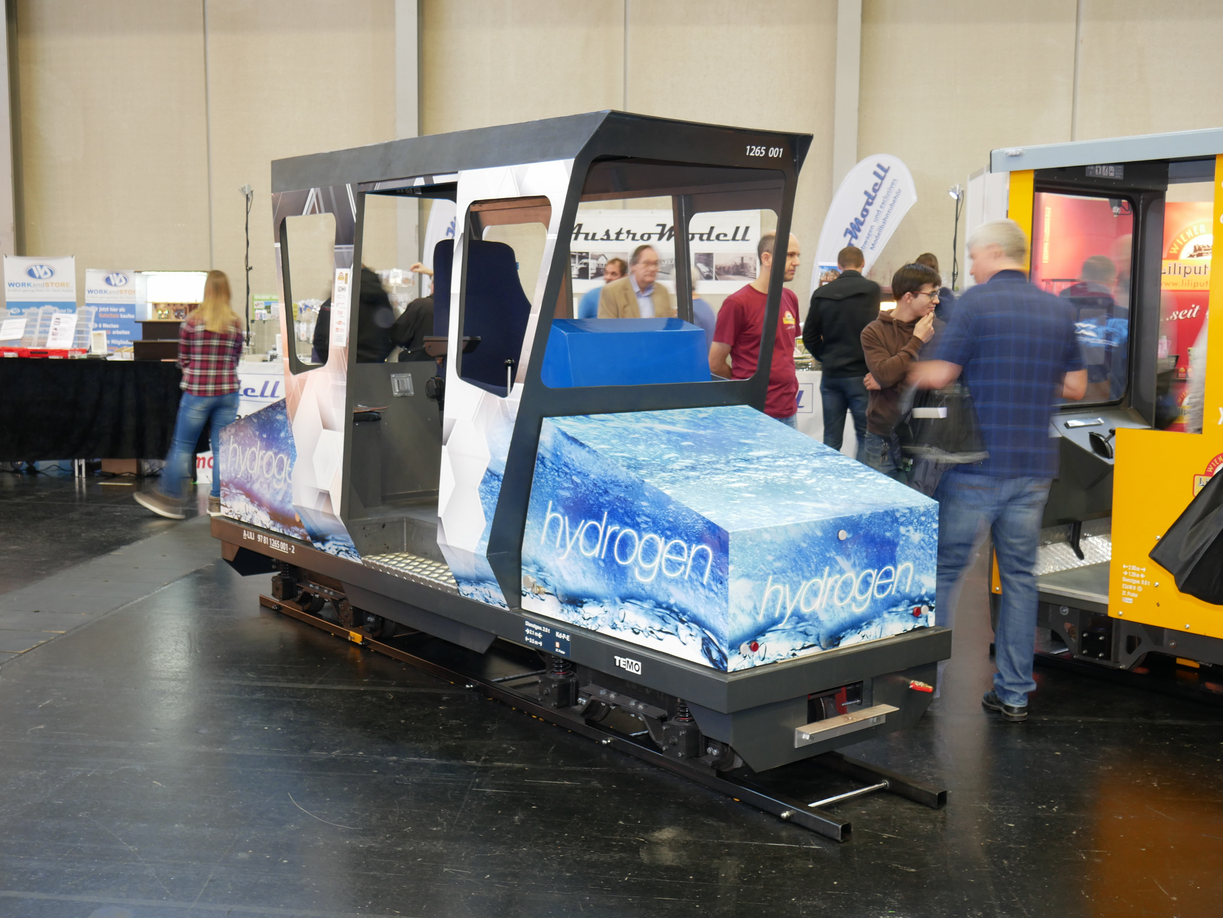 Liliputbahn Hydro-Lilly at the Vienna modelling fair.